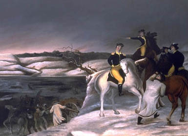 Washington crossing the Delaware River.